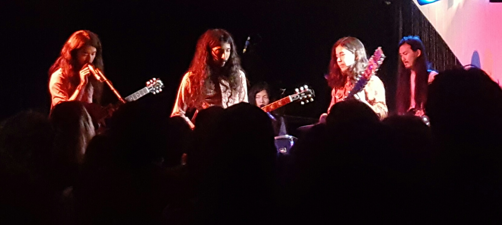 Kikagaku Moyo photographed in Montreal, Quebec, Canada at Casa Del Popolo.